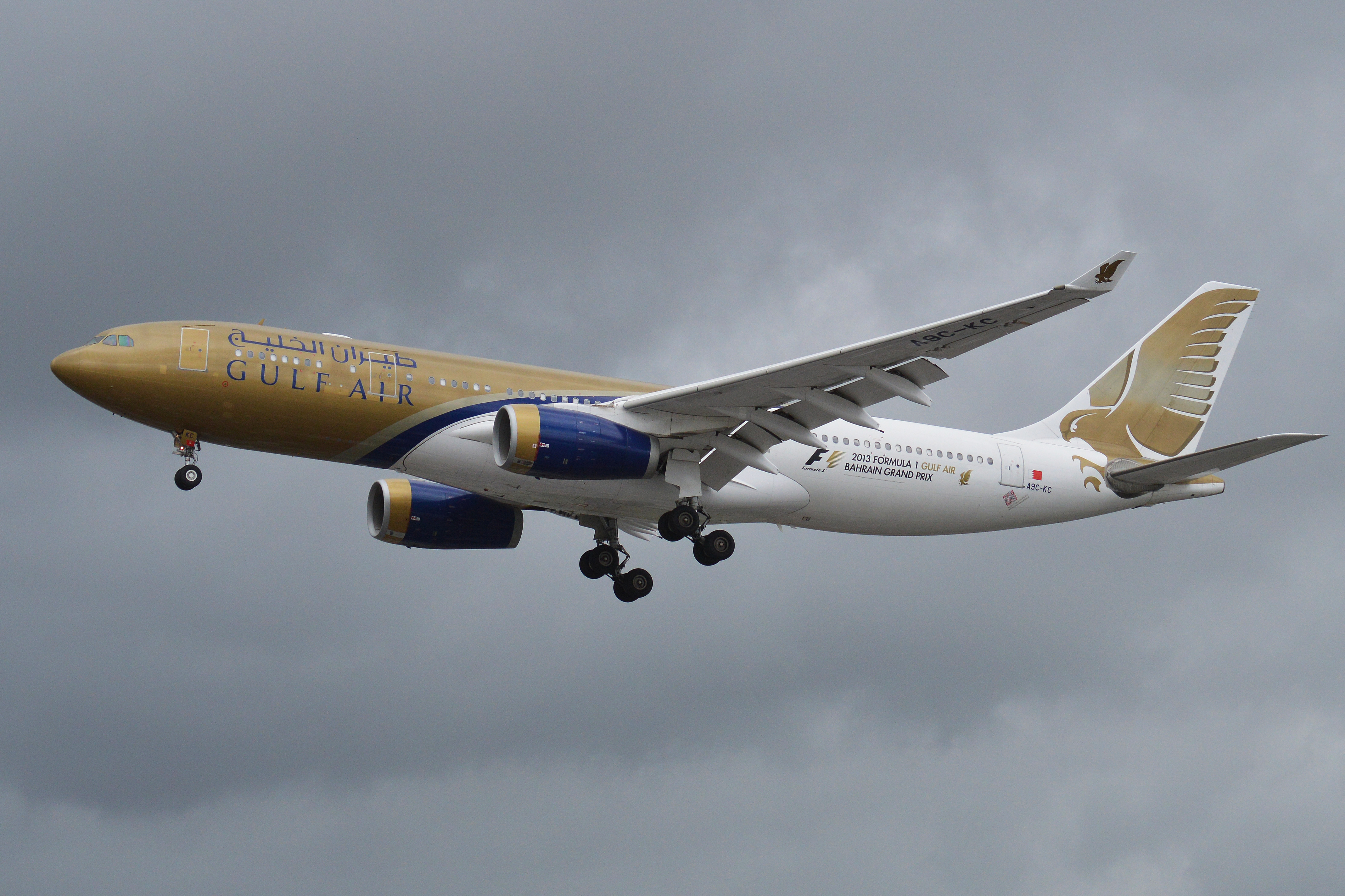 Seen arriving on flight GF003 from Bahrain. c/n 0286. London Heathrow. 15-6-2013